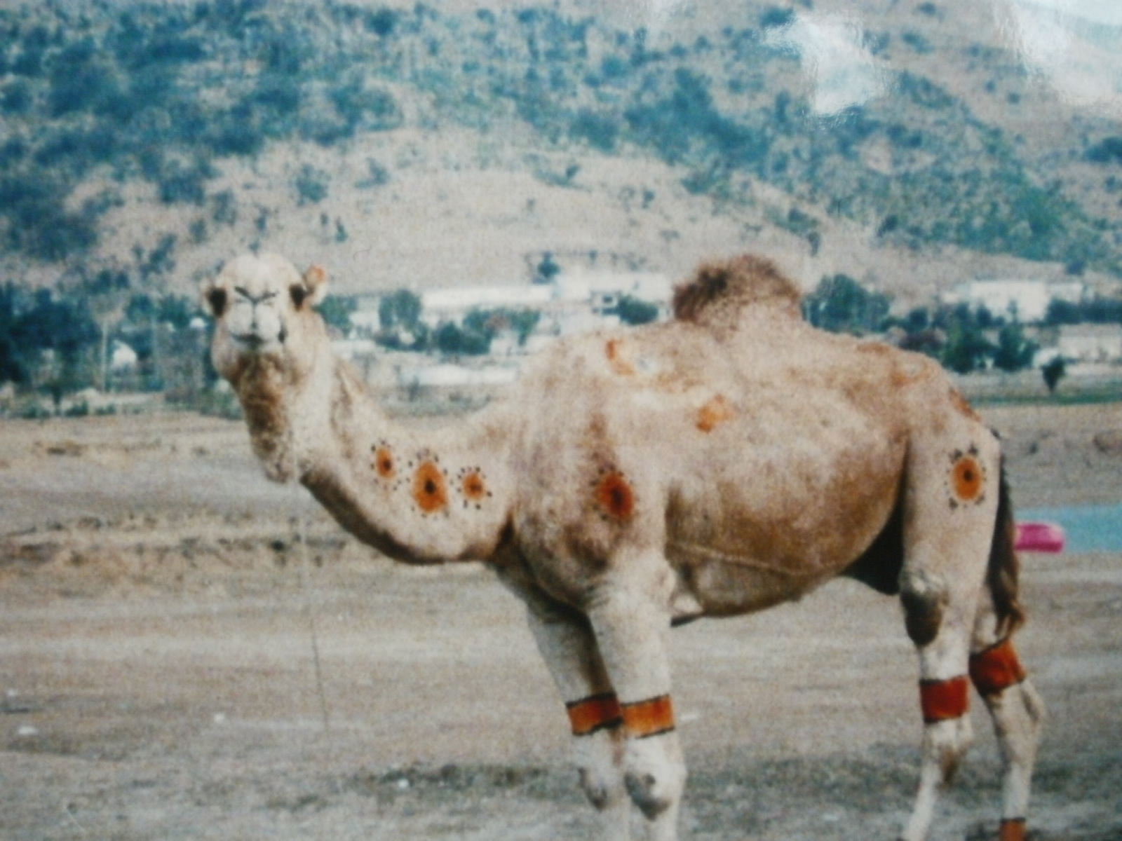 A camel decorated with beautiful 'Henna' patterns, near Khanpur lake, Haripur district, Pakistan, photo by me